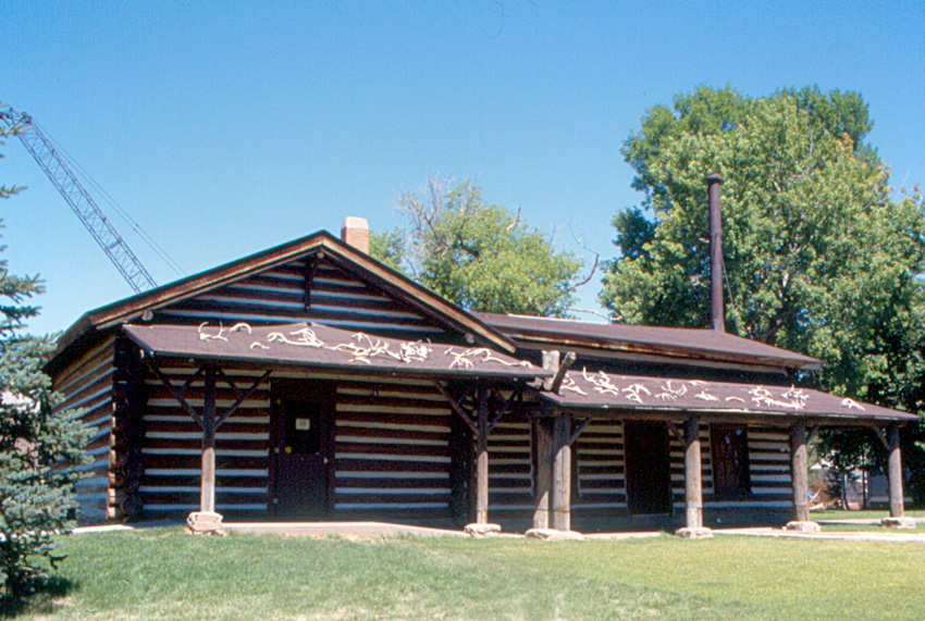 "Charles M. Russell (1864-1926) was a painter of Western scenes of the U.S. These included cownboys and other white settlers, Indians, and landscapes. He created over 2,000 paintings. He lived most of his adult life in Great Falls, Montana. The C. M. Russell Museum has the largest collection of his works. I believe that the objects on the roof are elk antlers. Russell's home / studio was moved to a location next to the museum."